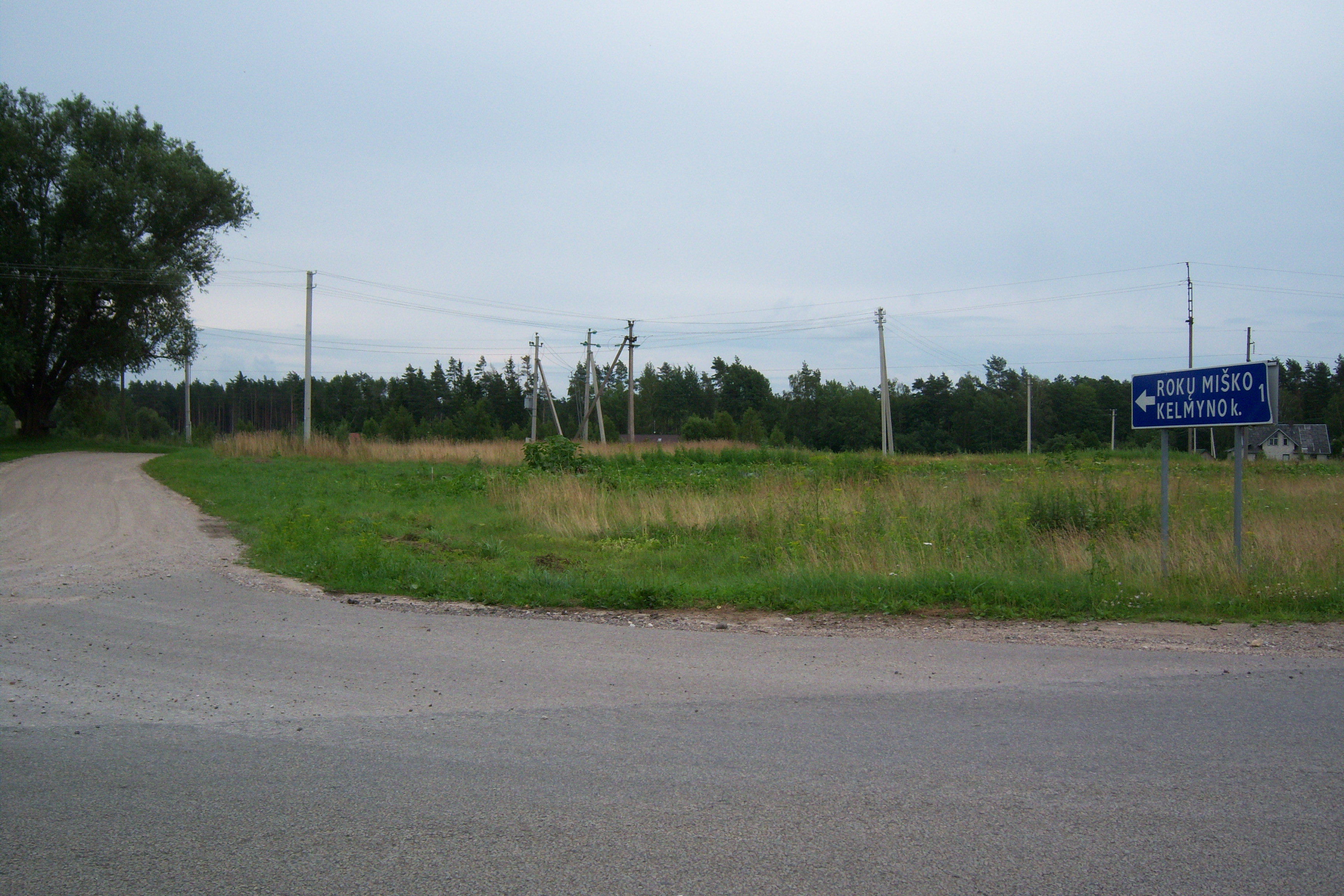 Sign to Rokų Miško Kelmyno village, Kaunas district. Lithuania